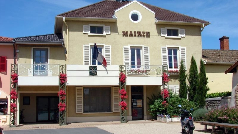 Town hall of Manziat